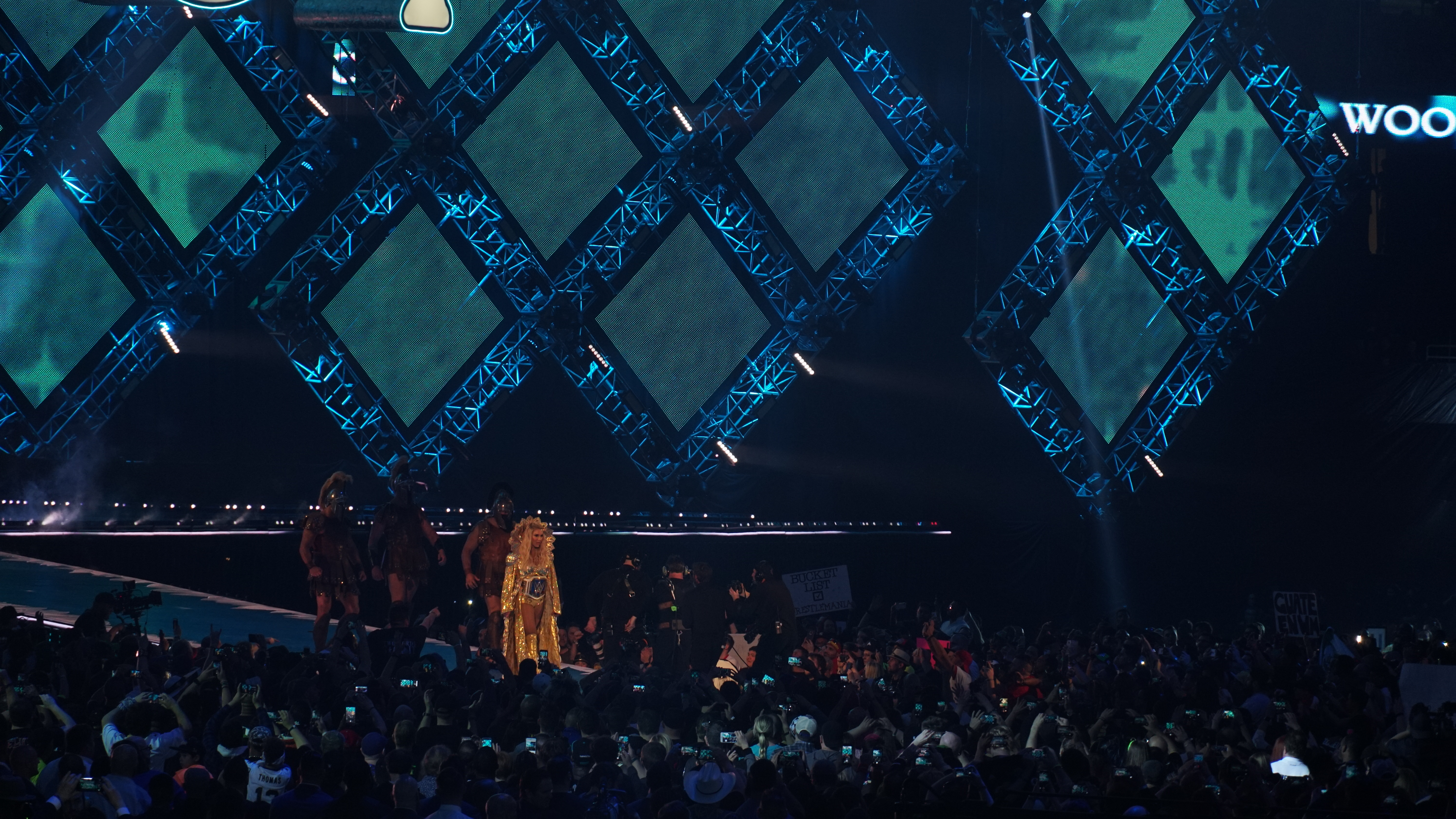 WWE SmackDown Women's champion Charlotte Flair at WrestleMania 34.